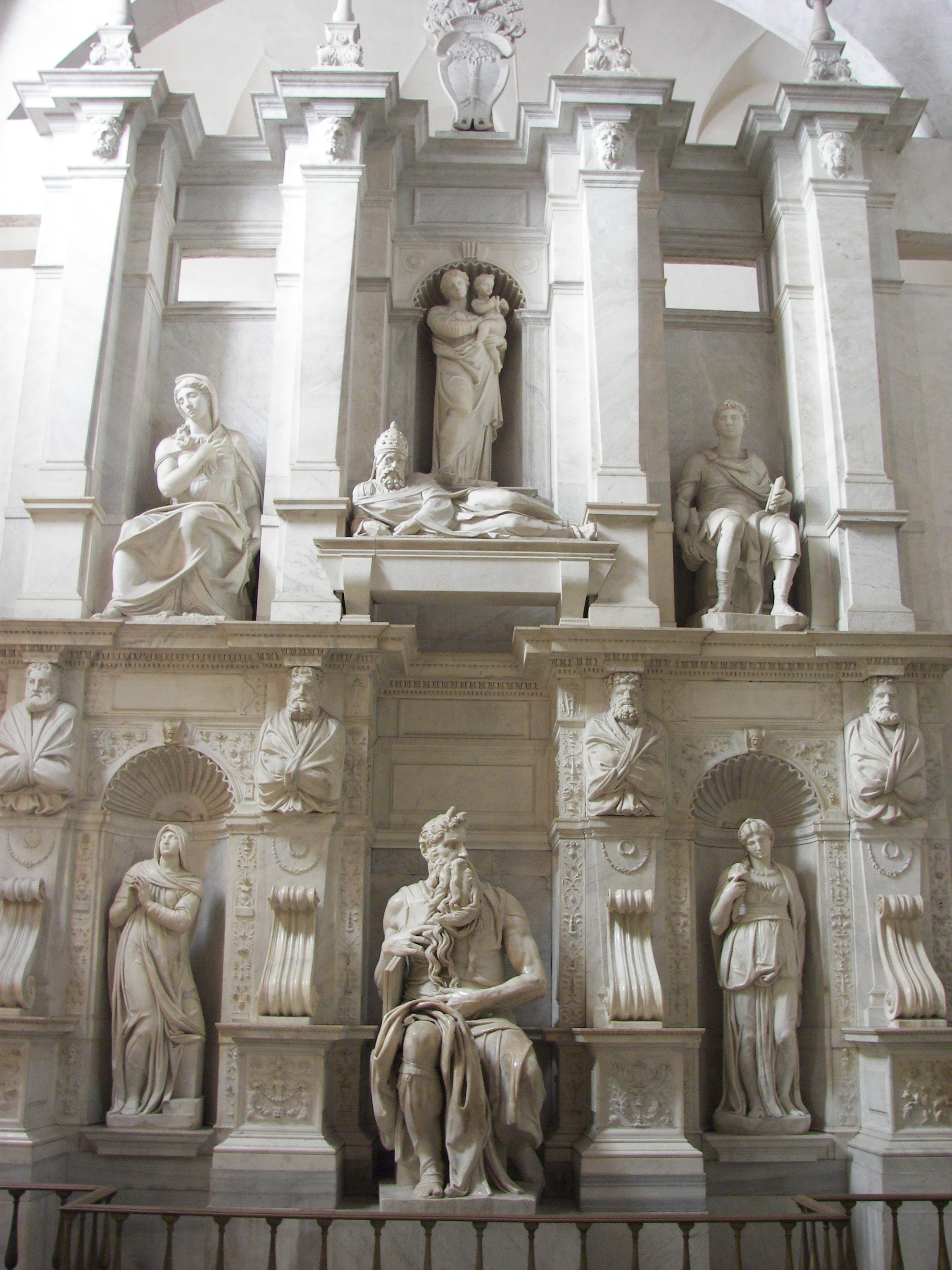 Intended grave of Pope Julius II with Michelangelo's Moses in San Pietro in Vincoli in Rome.